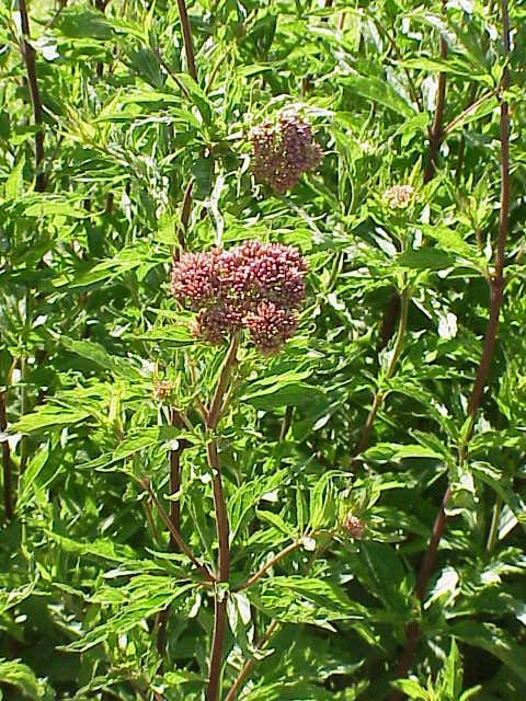 Hemp-agrimony.